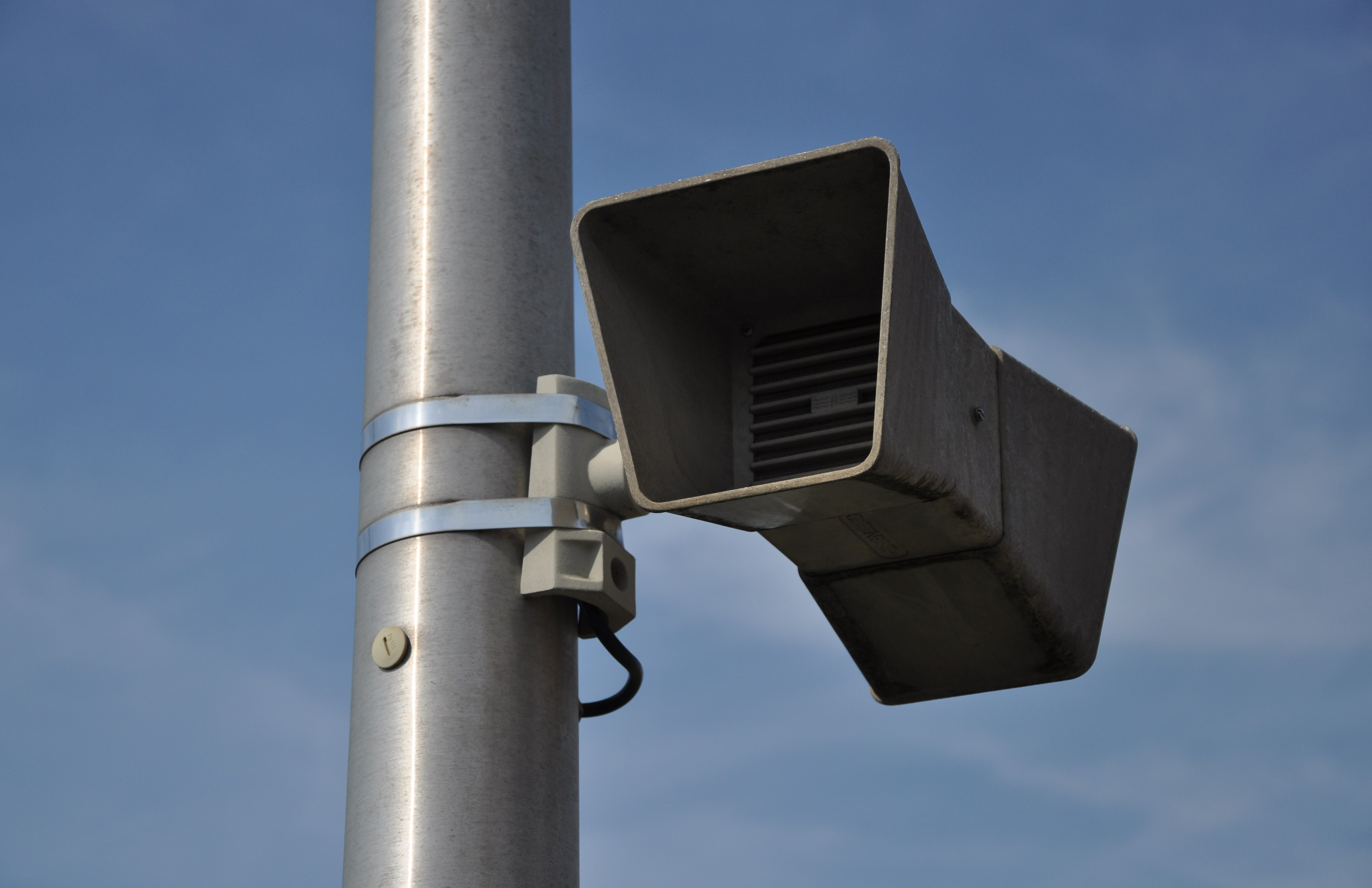 Platform speaker at Düren Hbf.